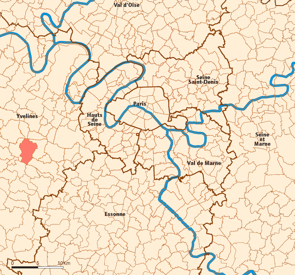 Created map myself.